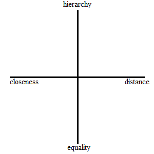 This is a recreation of an information diagram found in multiple articles by Tannen.